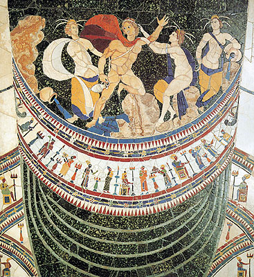 Opus sectile panel with the rape of Hylas by the Nymphs. Roman artwork, first half of the 4th century. From the basilica of Junius Bassus on the Esquiline Hill.